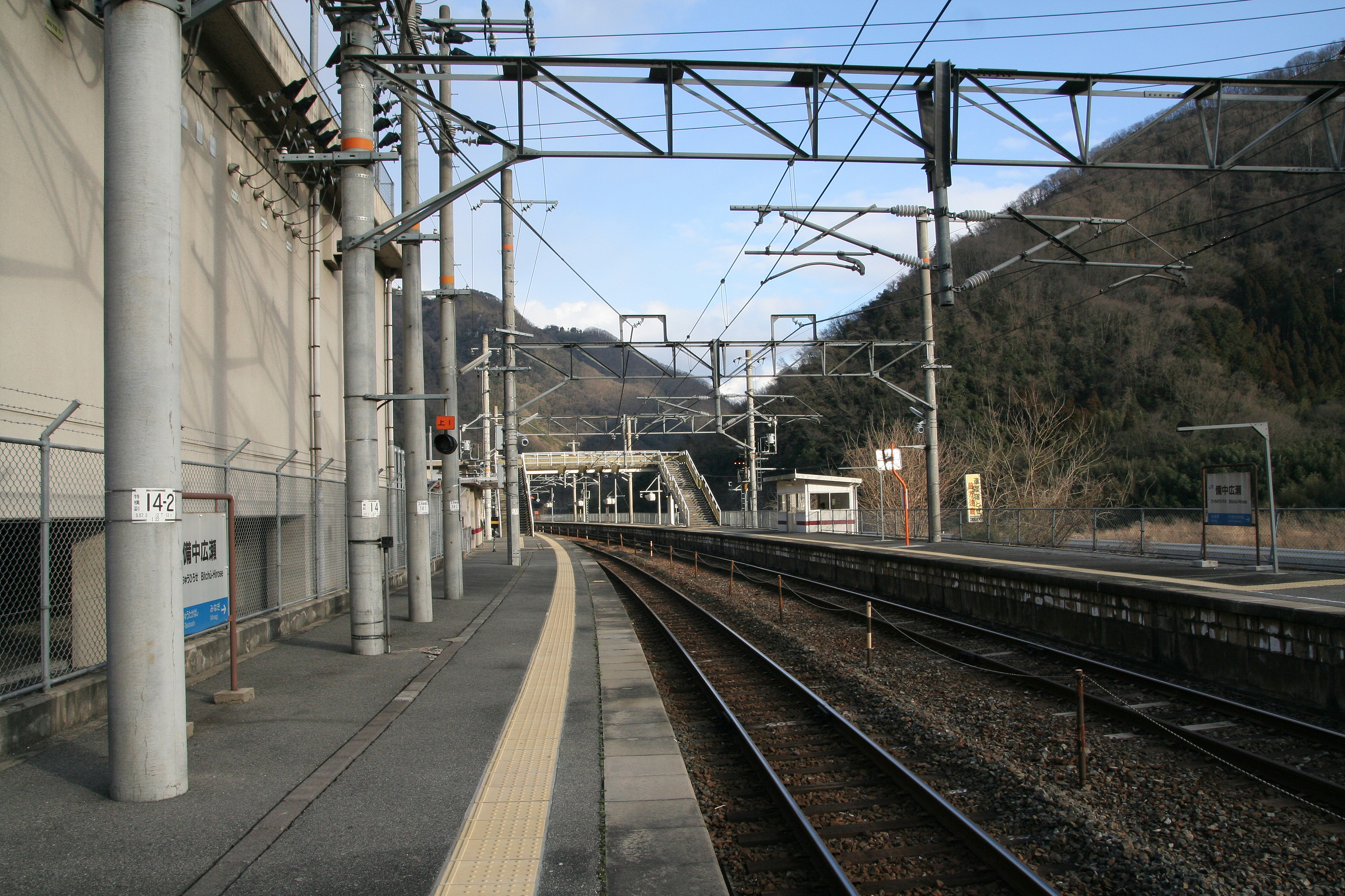 West Japan Railway Hakubi Line bitchū-hirose Station